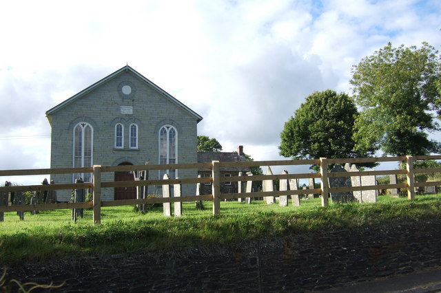 Baptist chapel Pontyglasier Bethabara Baptist chapel of 1872 in on the road between Blaenffos and Crosswell. Bethabara means 'house by the ford' in Hebrew and the chapel stands close to a bridge. A small number of dwellings cluster around the chapel.